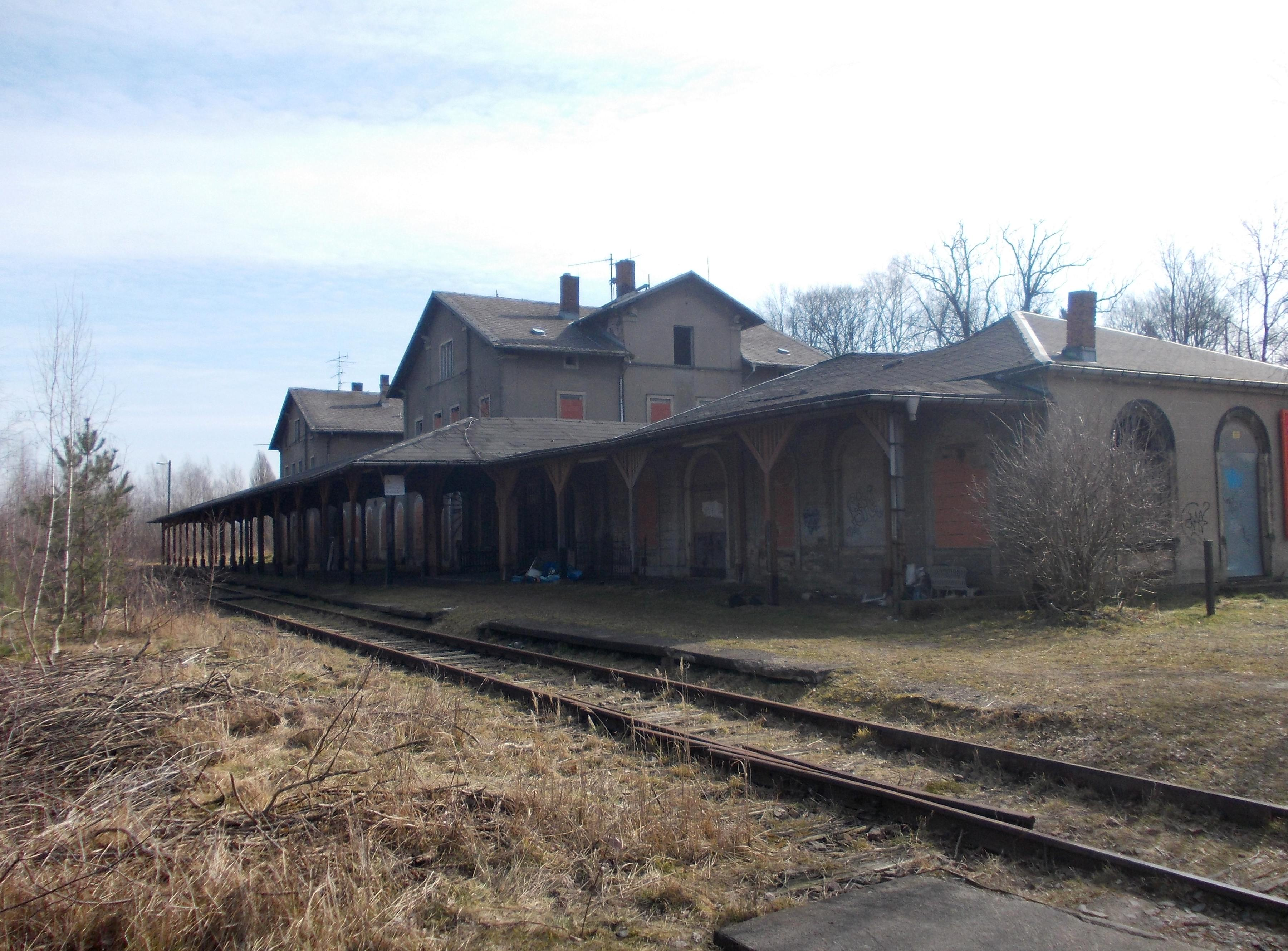 Limbach (Sachs) train station in Limbach-Oberfrohna (Zwickau district, Saxony)